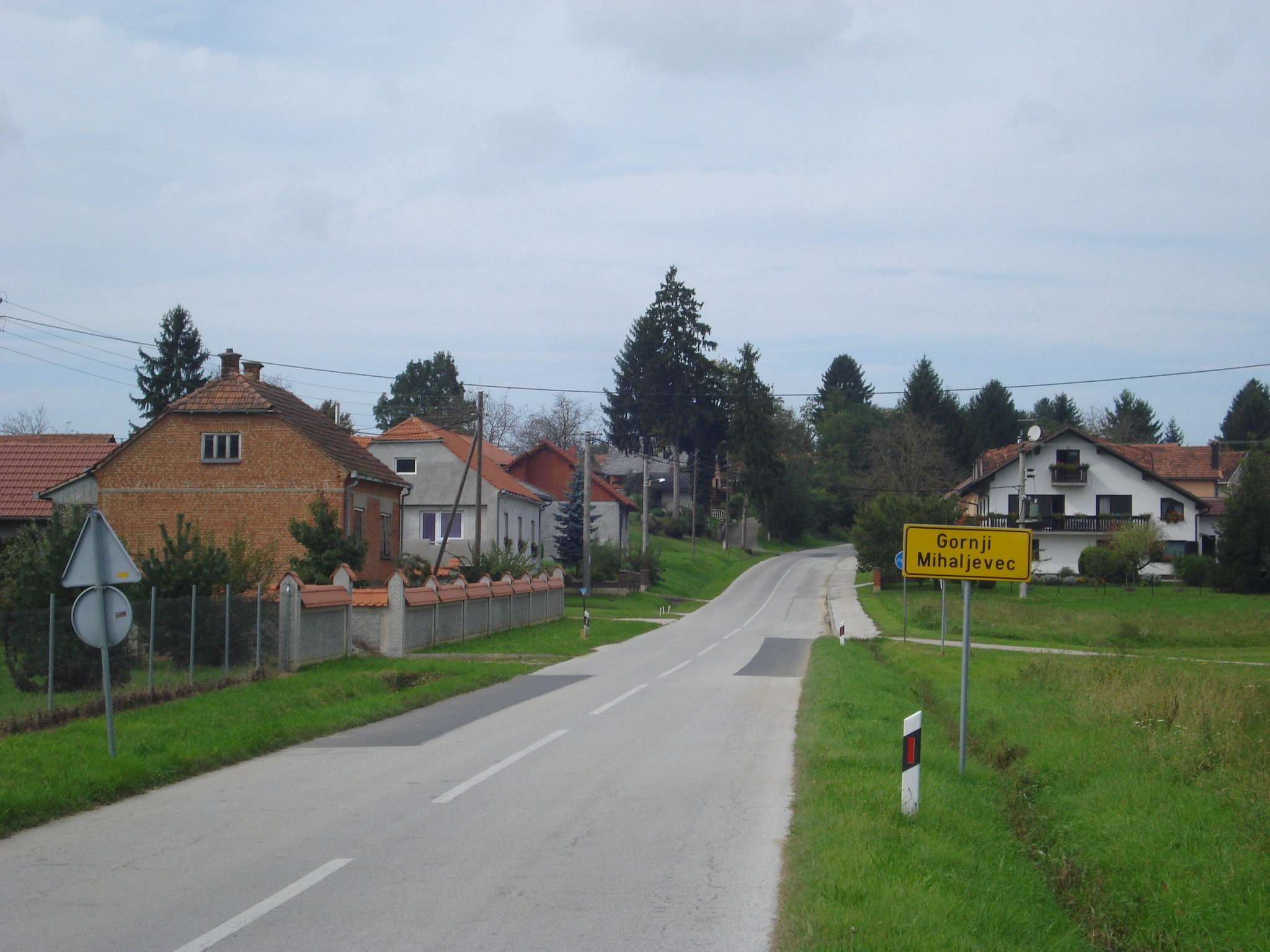 Gornji Mihaljevec (Međimurje County, Croatia) - village entrance